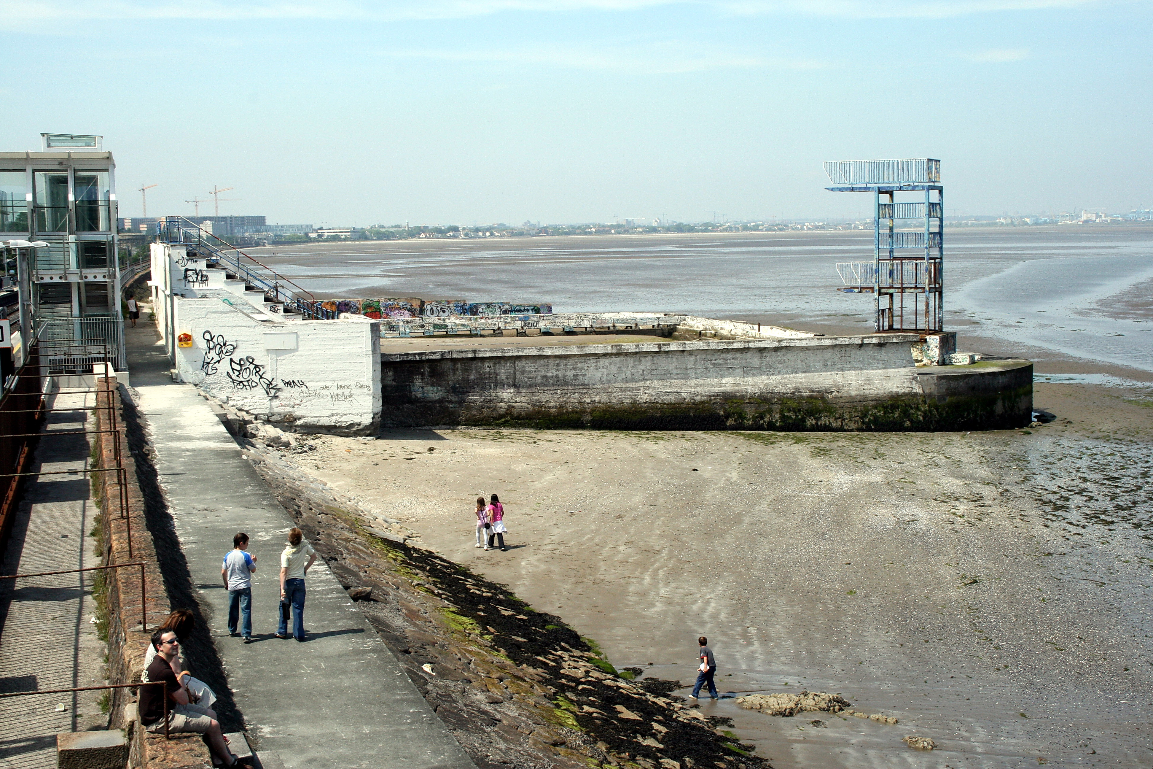 The derelict Blackrock Baths, Blackrock, County Dublin, Ireland